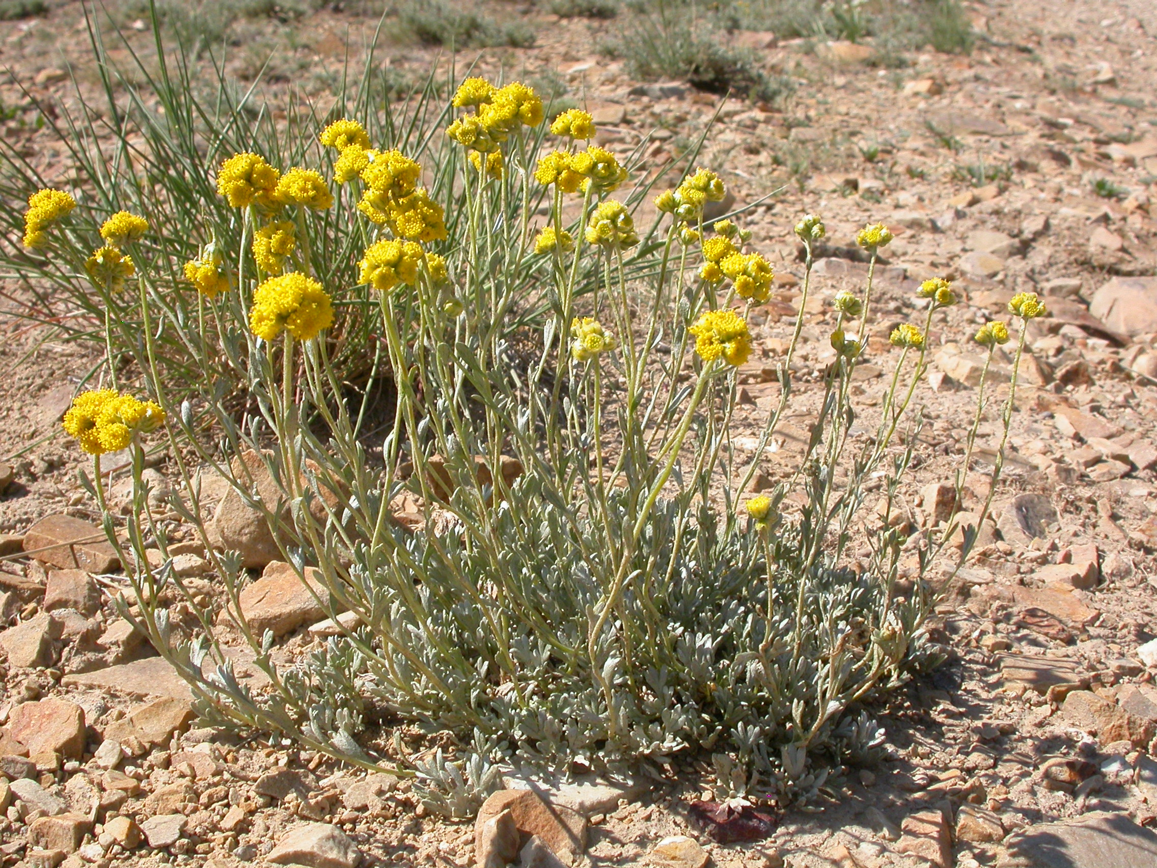 A common associate with Artemisia arbuscula (low growing exposed vegetation on dry slopes).